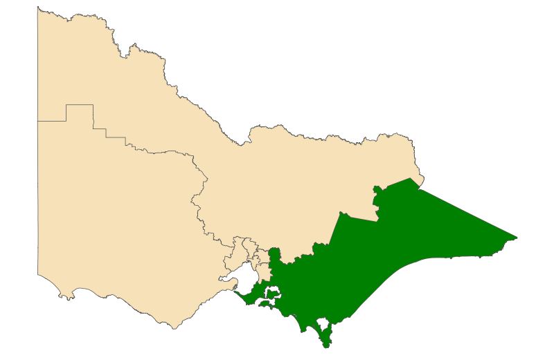 Location of the Victorian Legislative Council Region of Eastern Victoria (dark green).